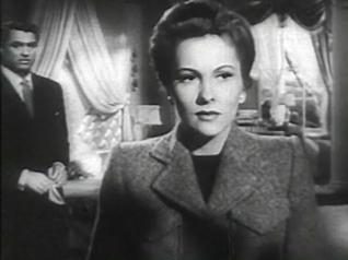 Cropped screenshot of Joan Fontaine from the trailer for the film Suspicion.